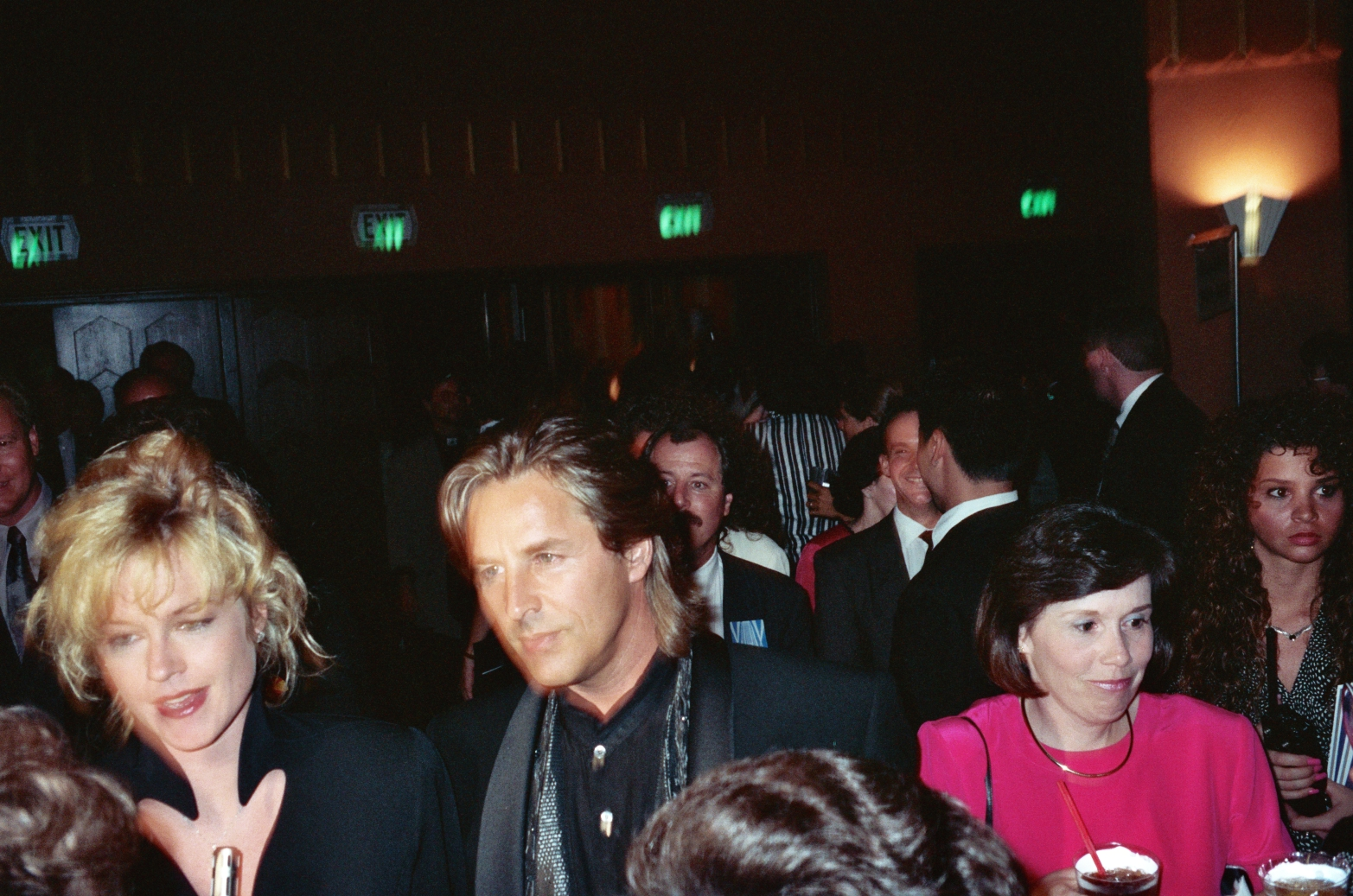 AIDS PROJECT LOS ANGELES benefit with Madonna and other stars, December, 1990